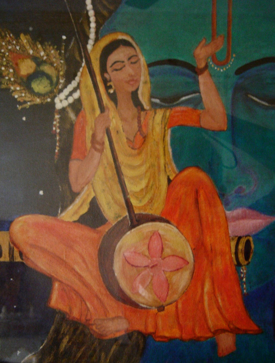 painting of Meerabai